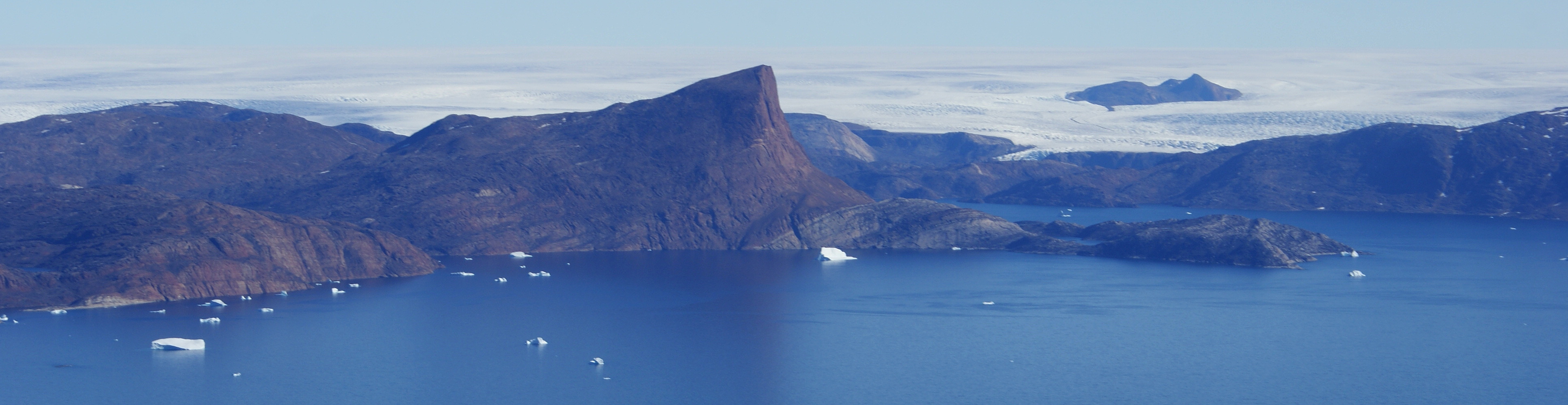 Aerial view of Illulissuaq Peninsula, Upernavik Archipelago, Greenland. Photographed from the Air Greenland Bell 212 during the Kullorsuaq-Nuussuaq flight. Ikermiut island on the first plane